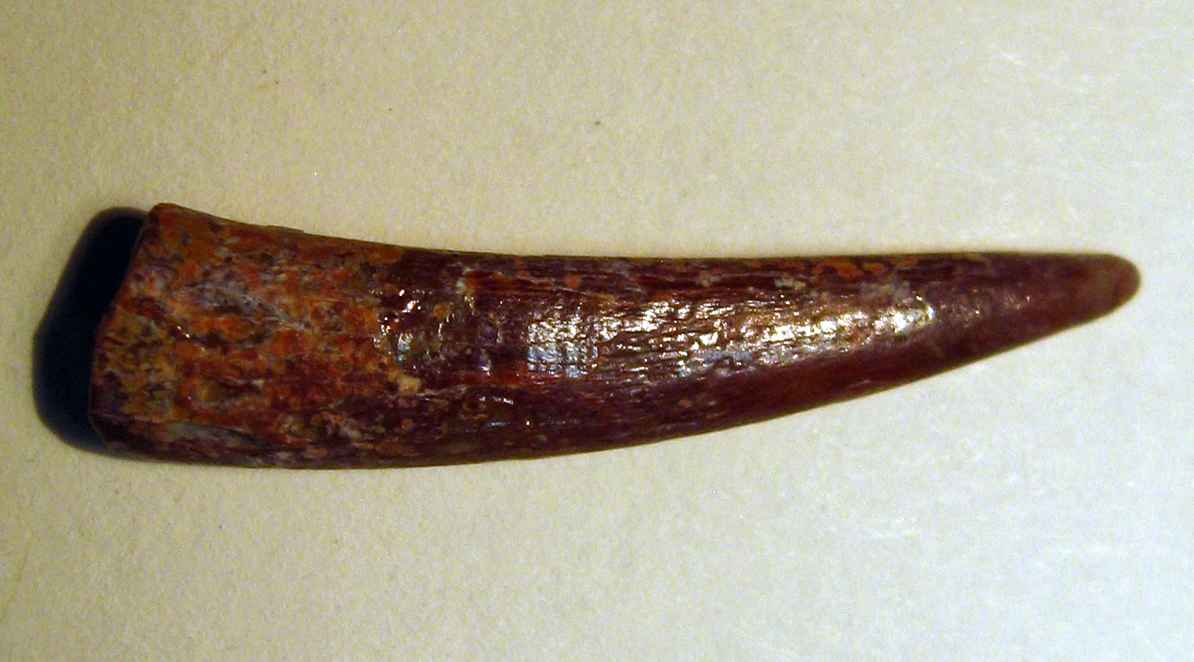 A2.8cm long tooth from a Pterosaur. Originally labeled as Siroccopteryx moroccensis but not confirmed by scientists. Cretaceous, 100 million years old, Kem Kem basin, South of Taouz, Sar-es-Souk province, Morocco